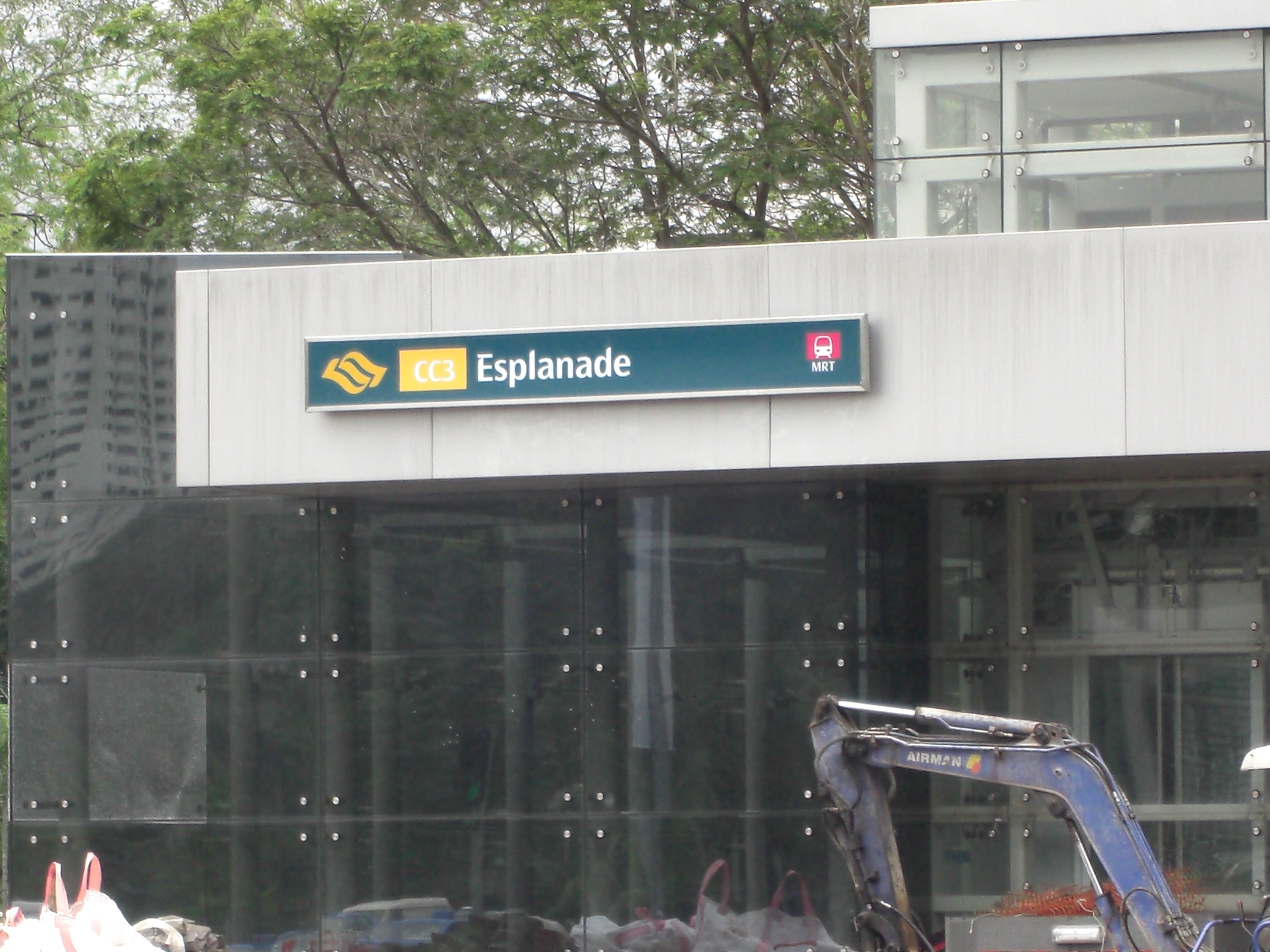 Esplanade MRT Station on the Circle Mass Rapid Transit Line in Singapore.